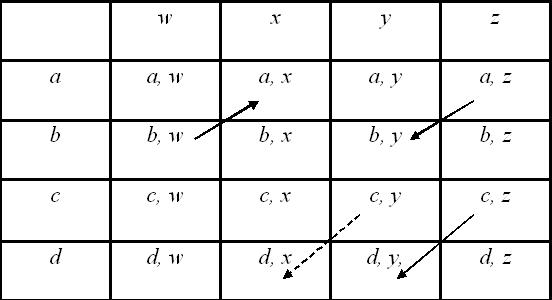 Graphical depiction of an instance of the triple cancellation condition of the theory of conjoint measurement.